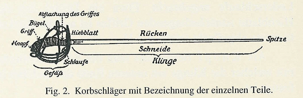 German academic fencing weapon Korbschläger, illustration of 1906, Akademische Fechtwaffe Korbschläger, Darstellung von 1906